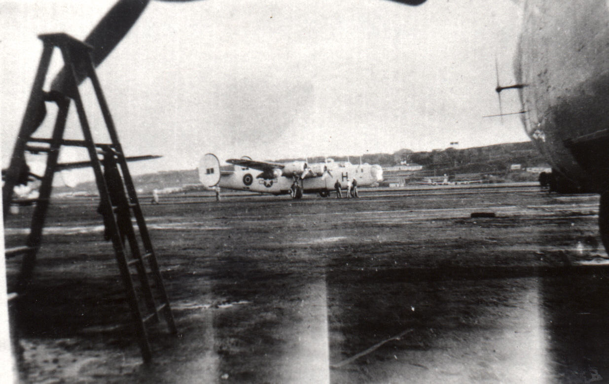 A Consolidated PB4Y-1 Liberator of patrol bomber squadron VPB-114, wearing U.S. and British markings, at Lagens Field, Terceira Island, Azores Islands (Portugal), in 1944/45. Portugal was neutral, but maintained friendly relations with Great Britain during the Second World War. In 1943 an agreement was reached that allowed the RAF Coastal Command the use of Lagens Field. Therefore, U.S. aircraft based there wore British and U.S. markings and operated under RAF Coastal Command control.